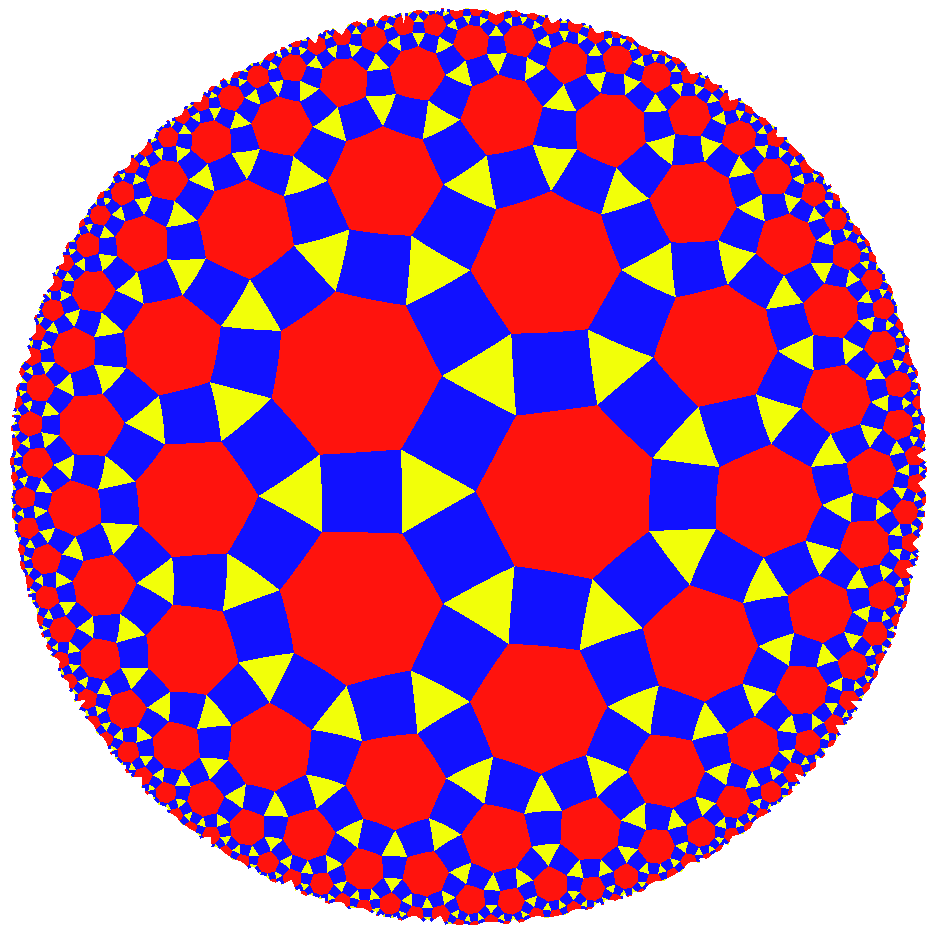 KaleidoTile, Topology and Geometry Software, Jeff Weeks Hyperbolic plane regular tiling: t0,2{7,3}